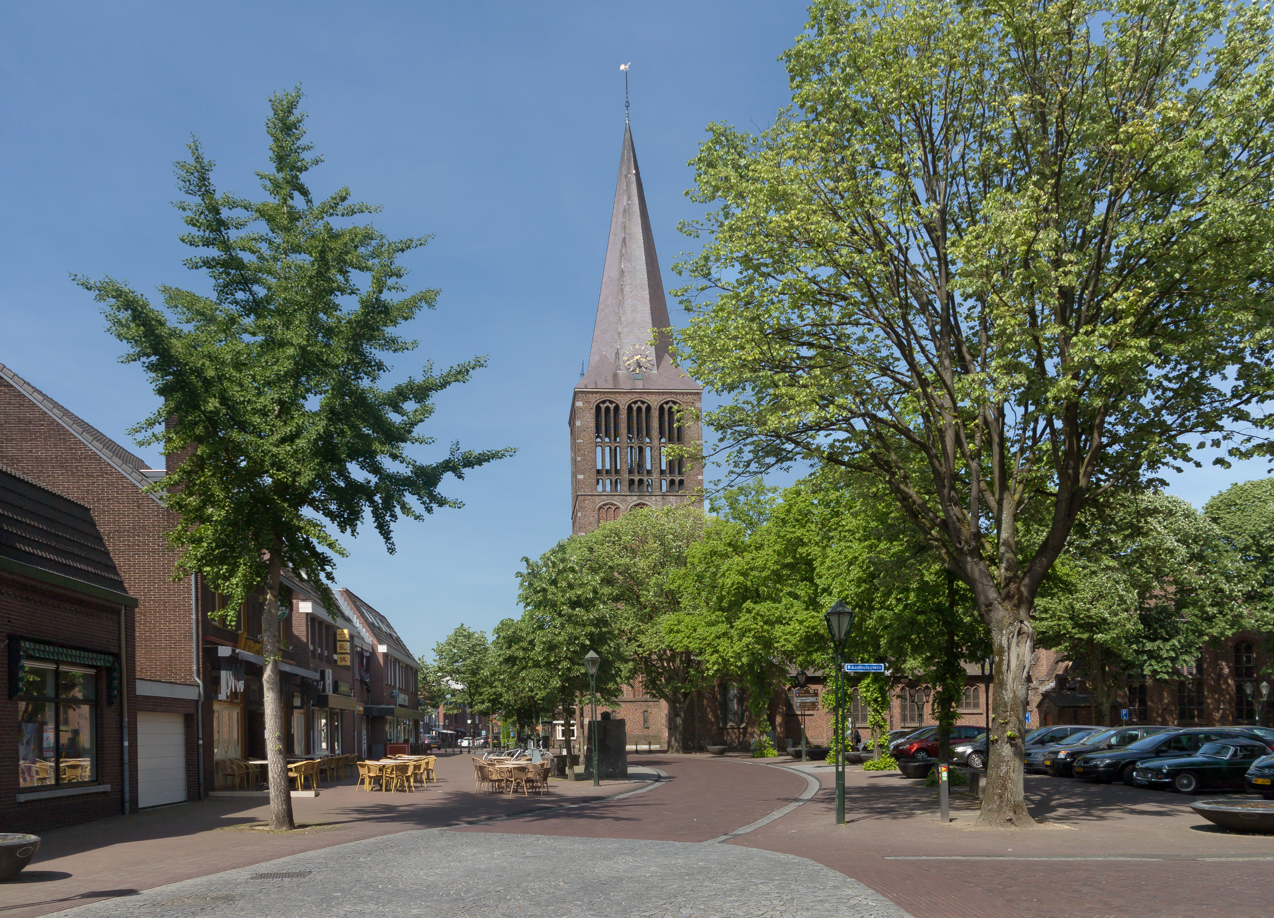 Sevenum, church: de Fabianus en Sebastianuskerk